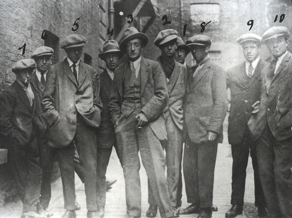 The Cairo Gang provided information to the British on the activities of the Irish Republican Army. Most of these men were killed on November 21, 1920.